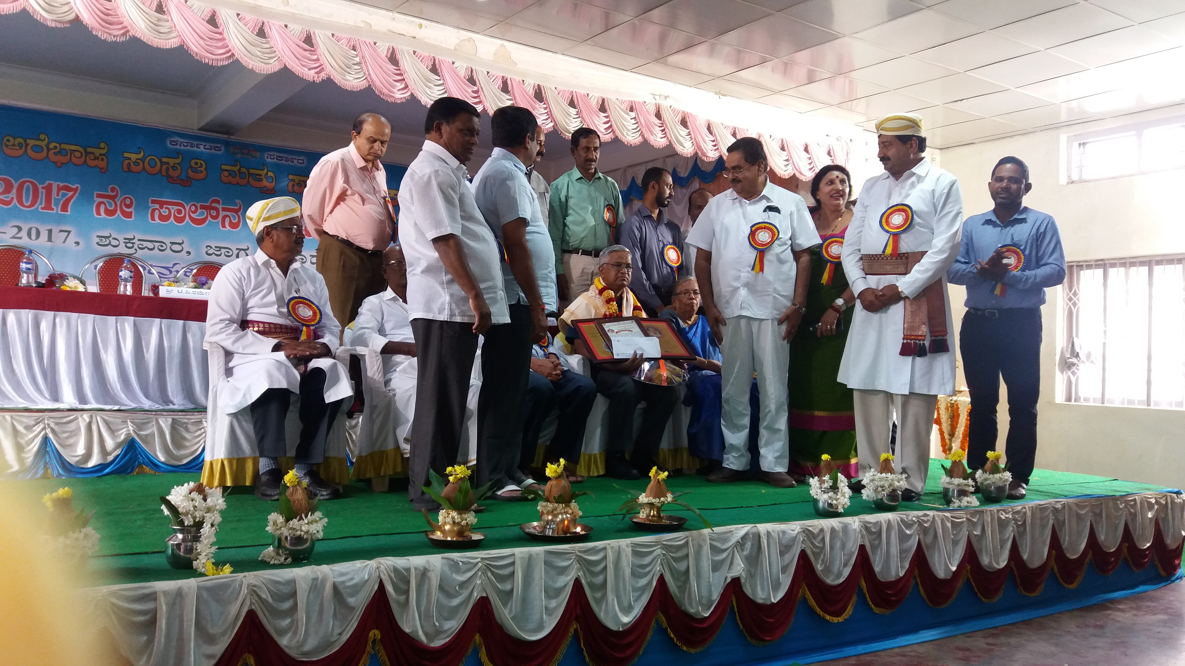 Award function